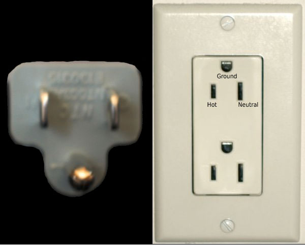 A 3-prong type B AC plug and receptacle (U.S. and Canada)